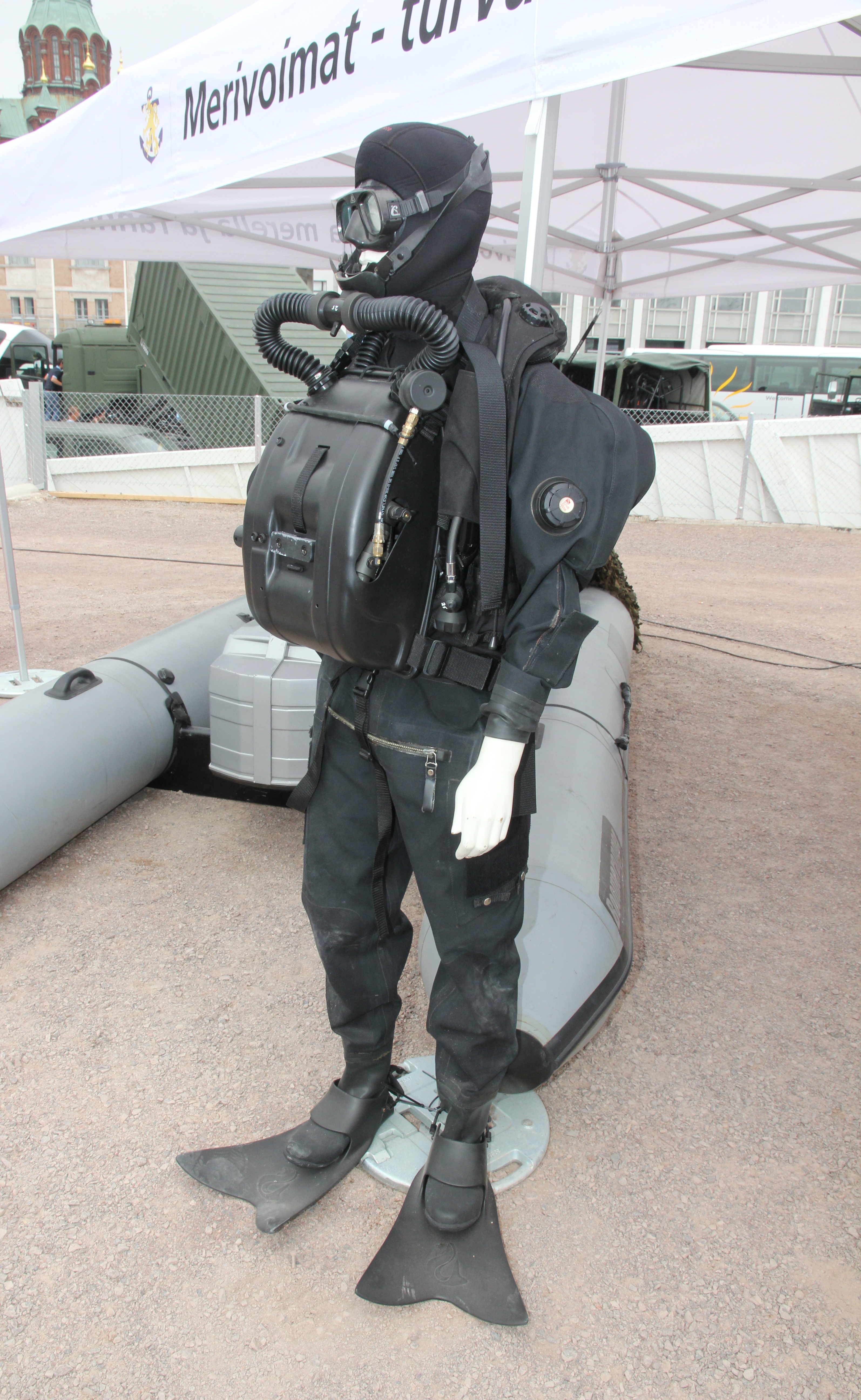 Mannequin wearing Finnish Navy combat diver equipment. The chest rebreather is likely Viper S-10. Photographed during Finnish Navy 2012 anniversary.